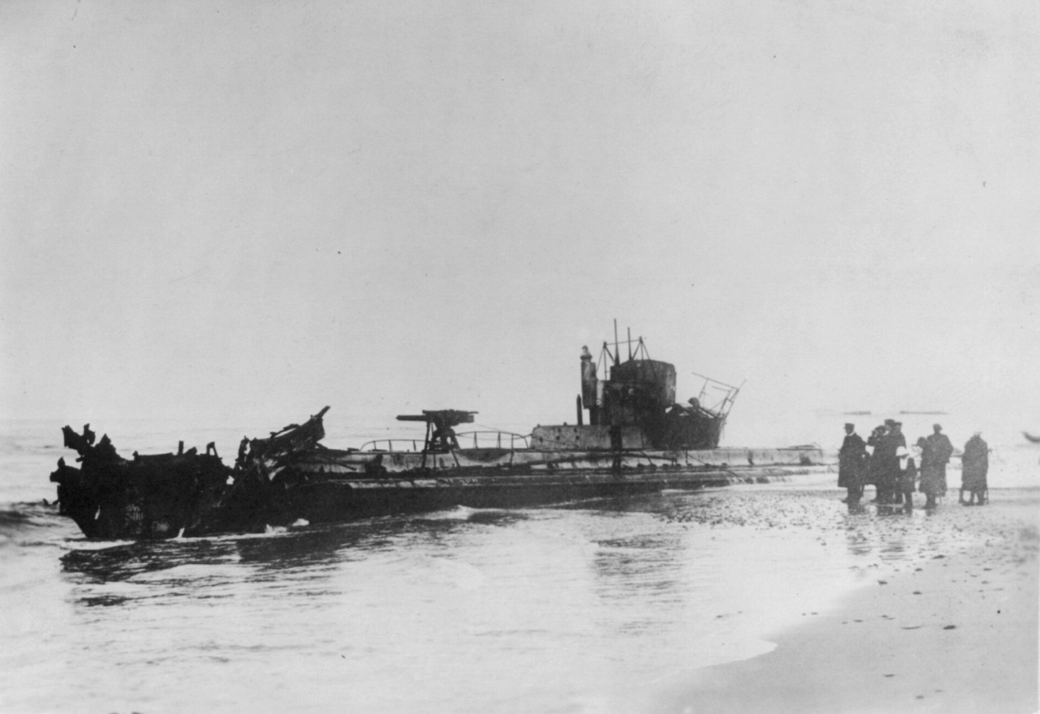 The German submarine U 20 grounded at 5633N 0808E at Vrist, on the Danish coast. The boat ran aground on 5th of November 1916 and was blown up by her crew the next day. On 7th May 1915 U 20 (Kptlt. Walther Schwieger in command) torpedoed the British liner RMS Lusitania which sank in 18 minutes, taking 1,201 lives with her. For more information about the Lusitania disaster, visit